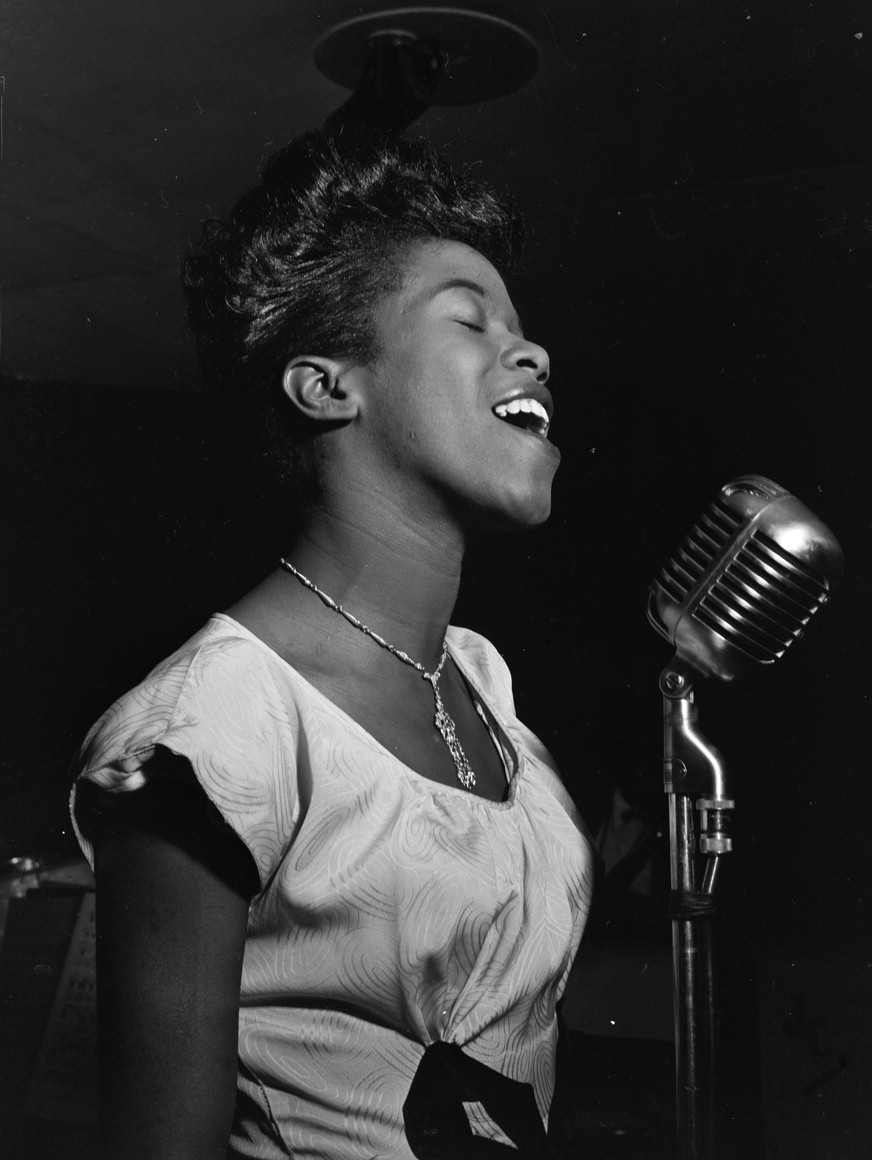 Sarah Vaughan, possibly Cafe Society, NYC, ca. August 1946. Photography by William P. Gottlieb.